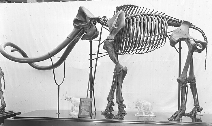 Imperial Mammoth (Mammuthus imperator)